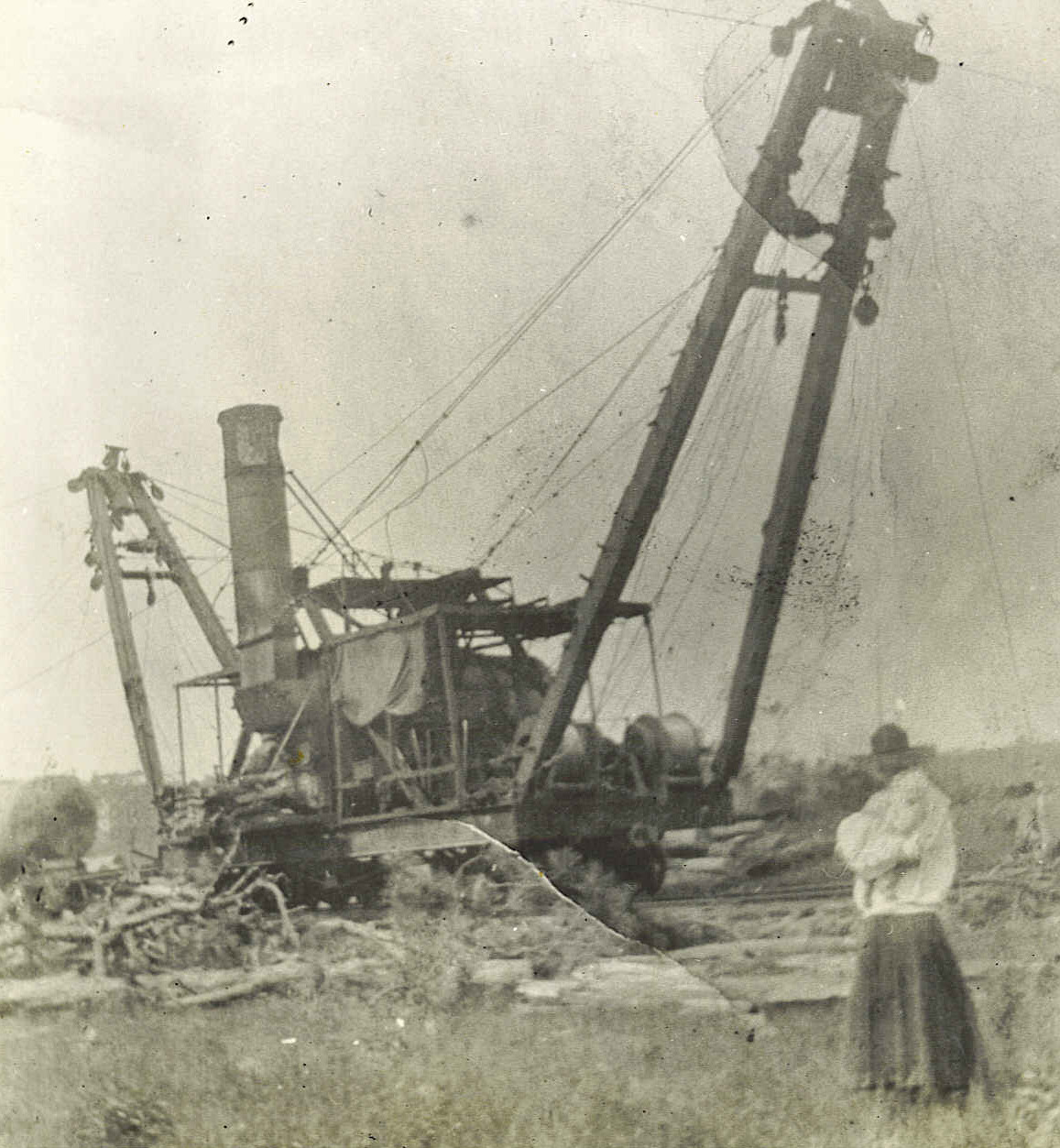 Marathon Skidder.jpg Joey Murphey Murphey Family Archives